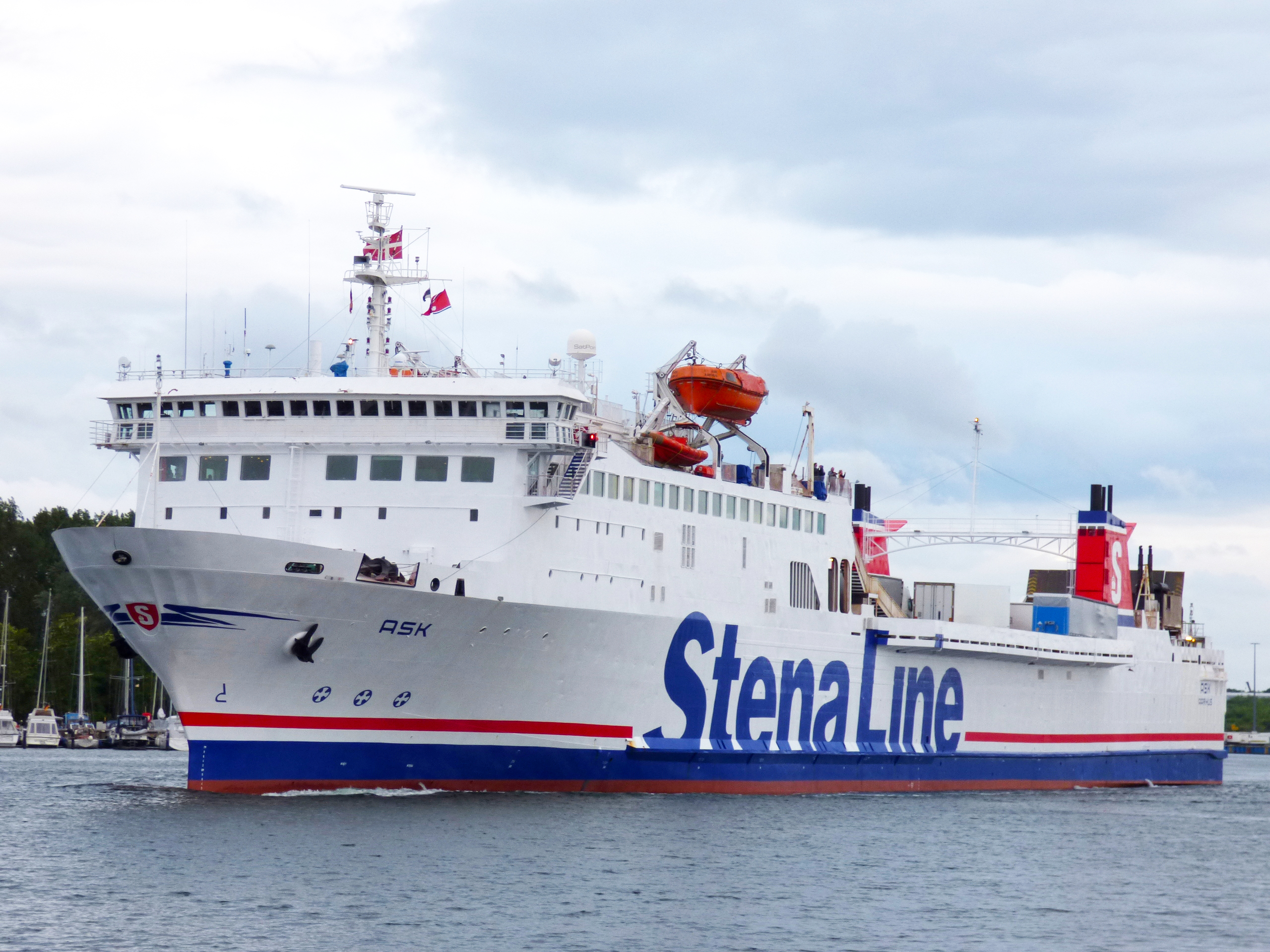 Ferry MS Ask of Stena Line in Travemünde harbour. The ship was renamed in September 2015 and now sails under the name MS Stena Gothica.